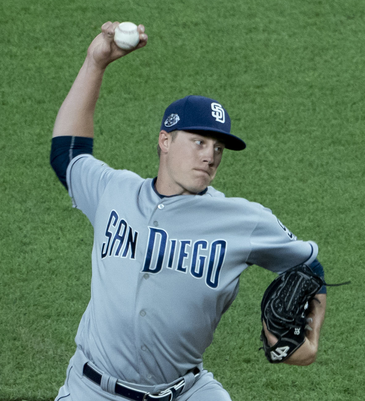 Phil Maton delivers a pitch for the San Diego Padres during a 2019 game at Camden Yards in Baltimore.